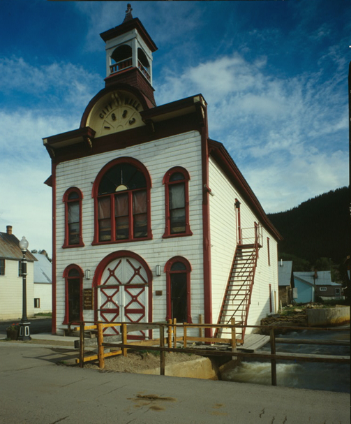 Old City Hall, Elk Avenue, Crested Butte, Gunnison County, CO Historic American Buildings Survey URL: (image cropped) Photo courtesy of the US National Park Service